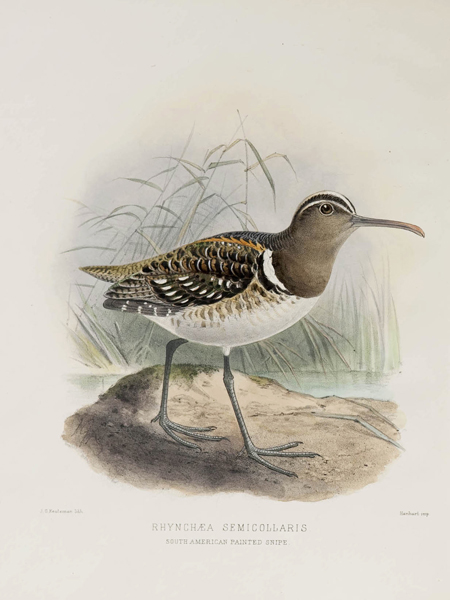 South American Painted Snipe or Lesser Painted Snipe (Nycticryphes semicollaris) Plate (XIX) from Seebohm, 'Geographical Distribution of the Family Charadriidae'